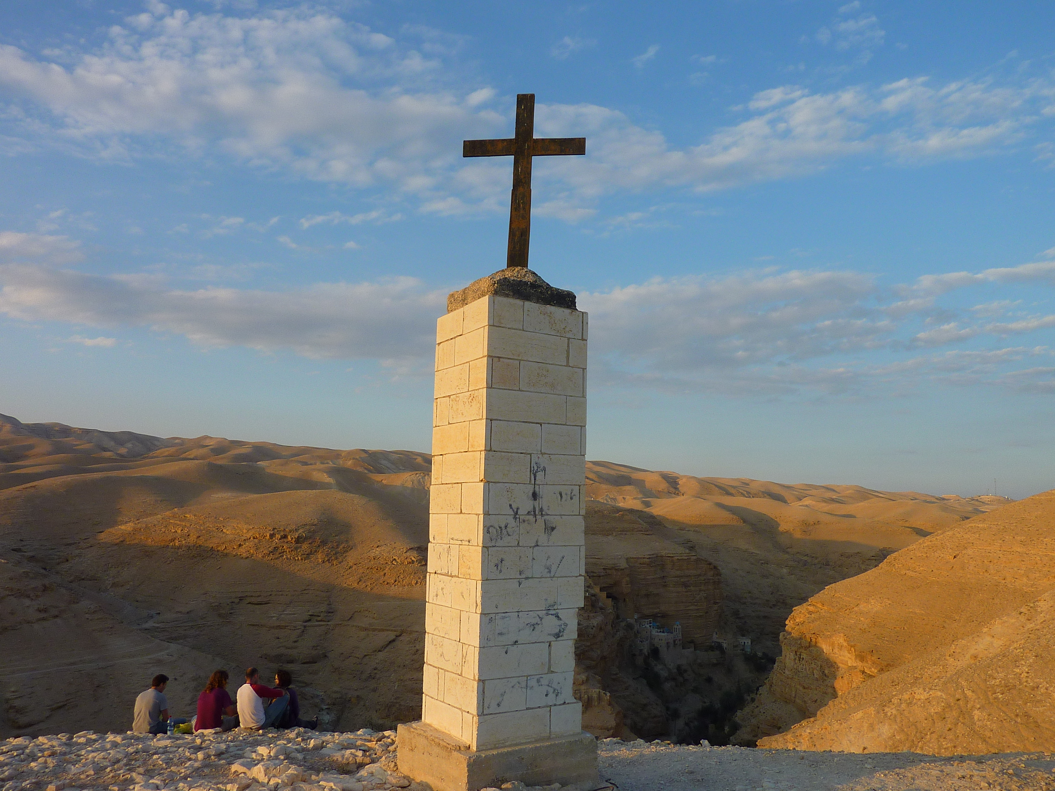 Cross in the desert